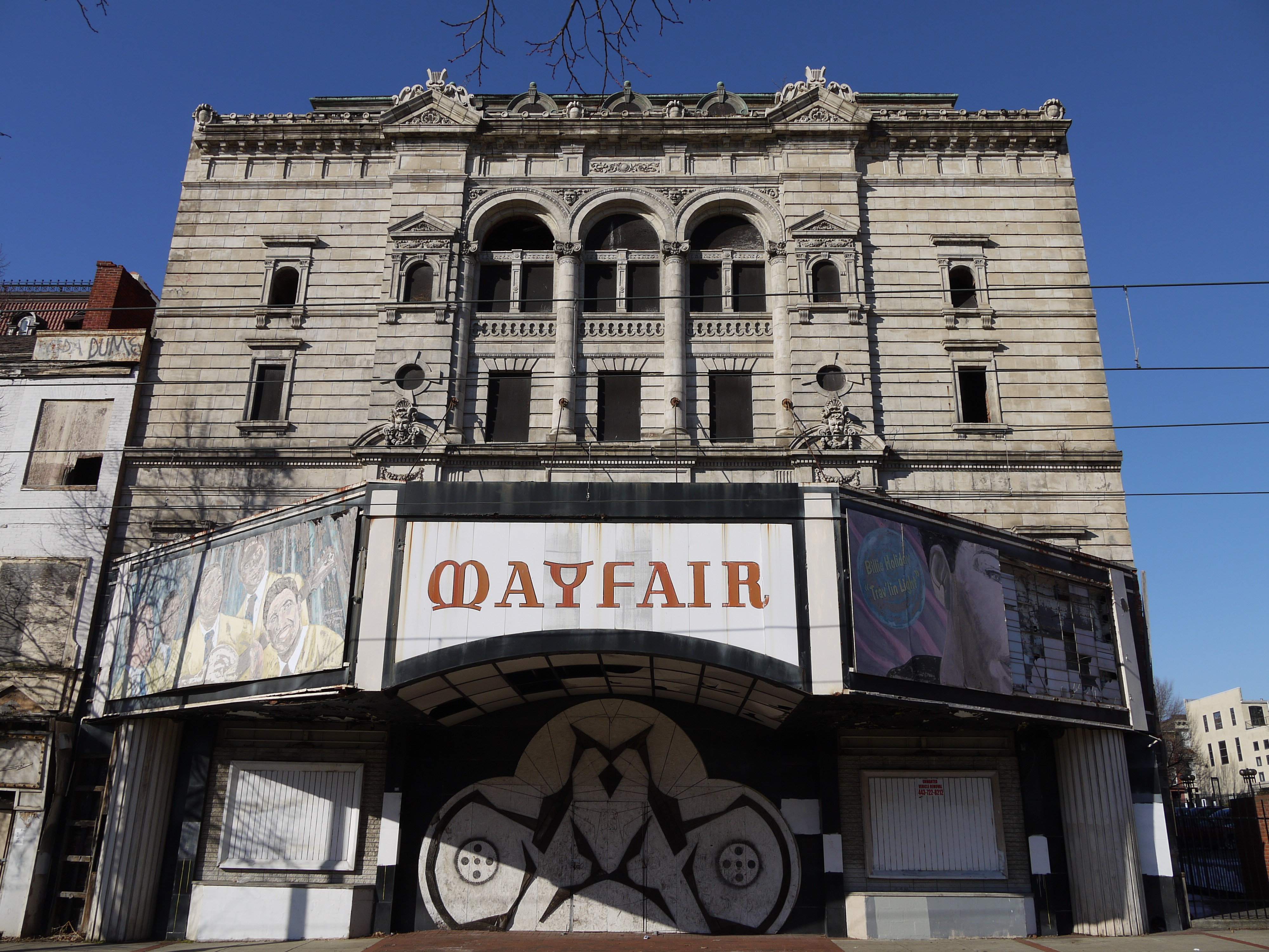 Photograph by Eli Pousson, 2011 February 10.